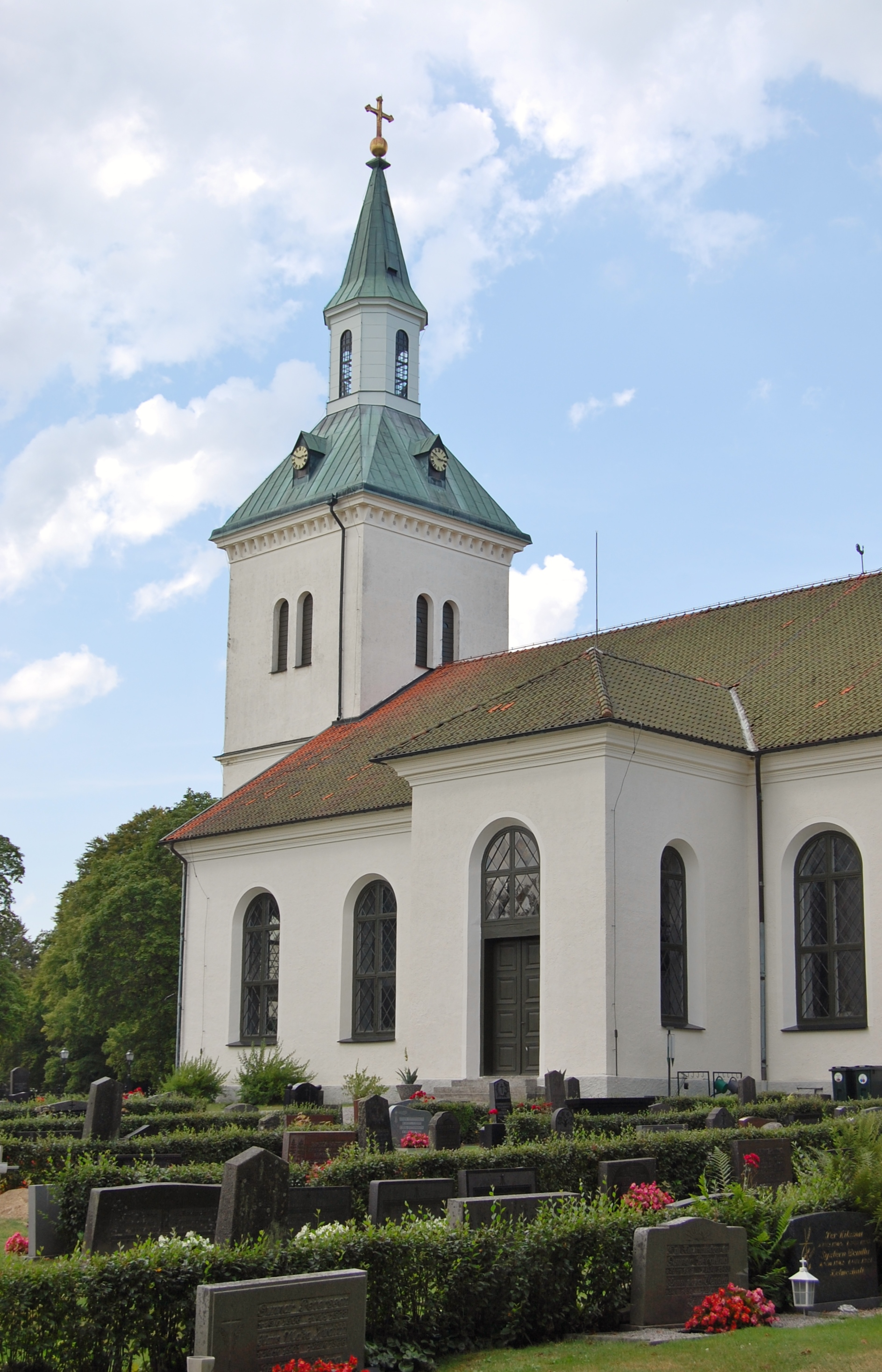 Västra Torsås Church